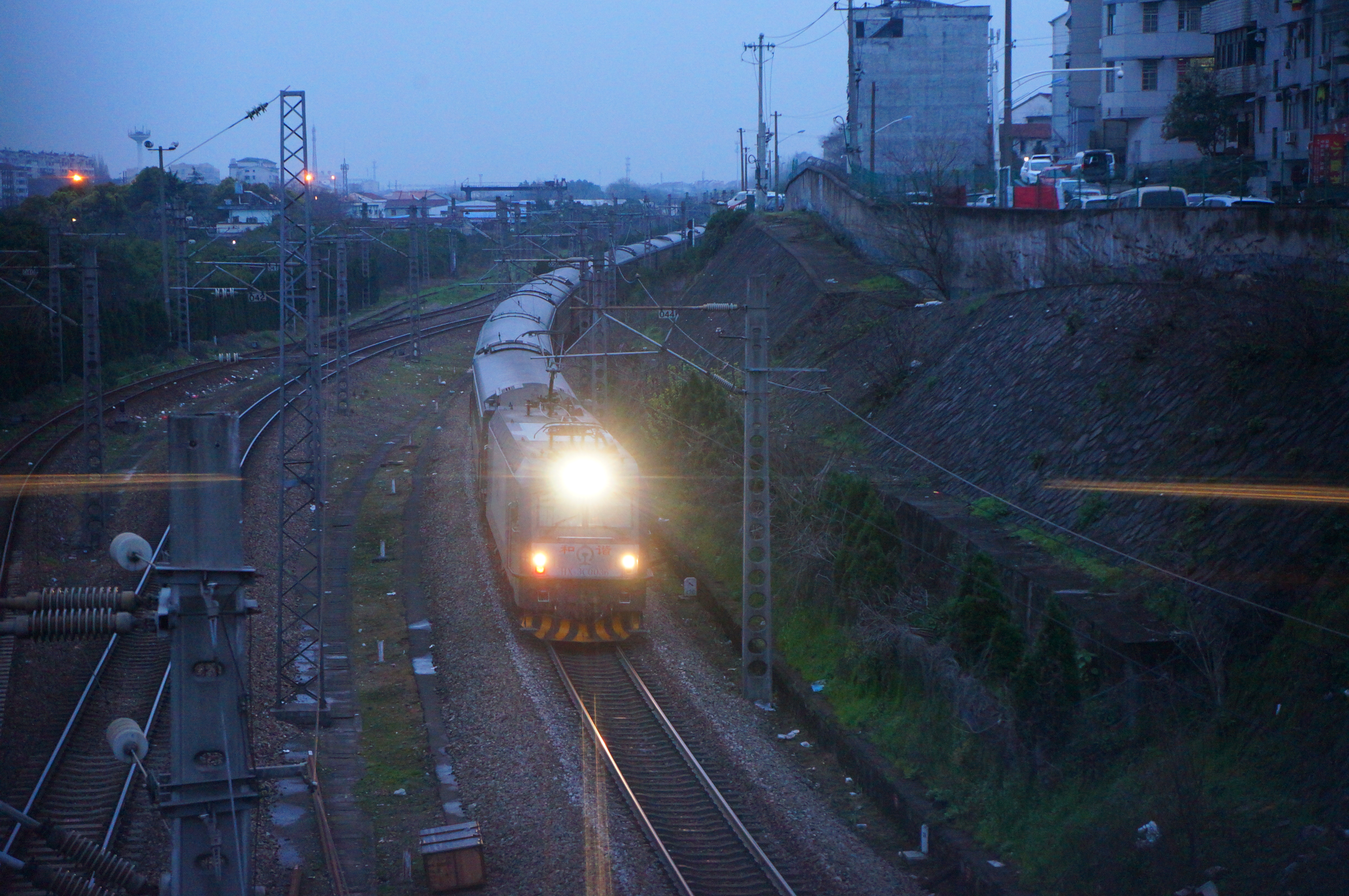 201703 K123 approaches to Jinhua Station. I initially planned to shoot the departure of K1258.